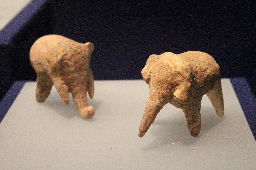 Shijiahe clay figurines of elephants. Hubei Provincial Museum, Wuhan, Paleolithic, Neolithic & Shang Exhibit.